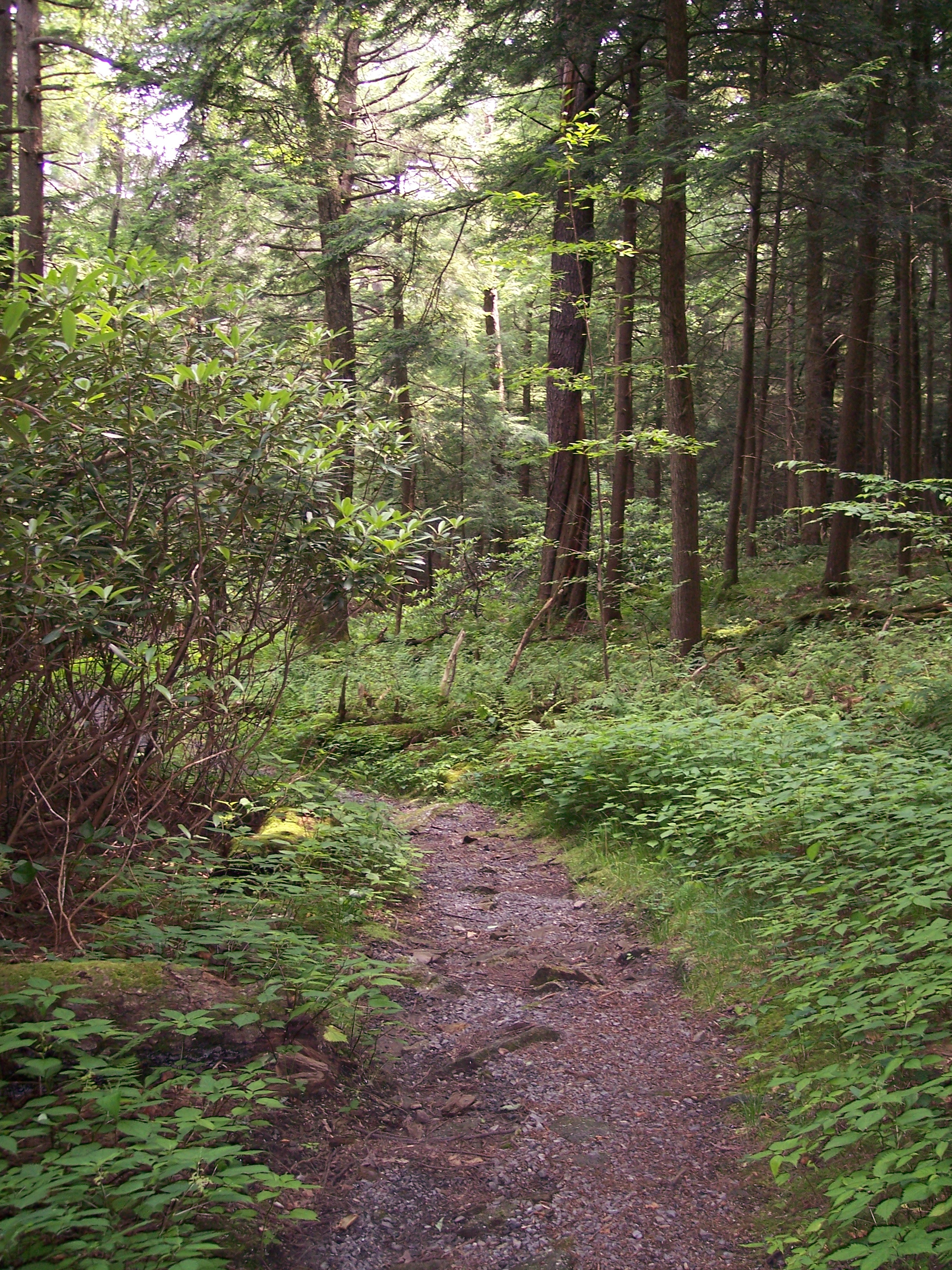 The Cathedral Trail in Cathedral State Park — near Aurora in Preston County, West Virginia.